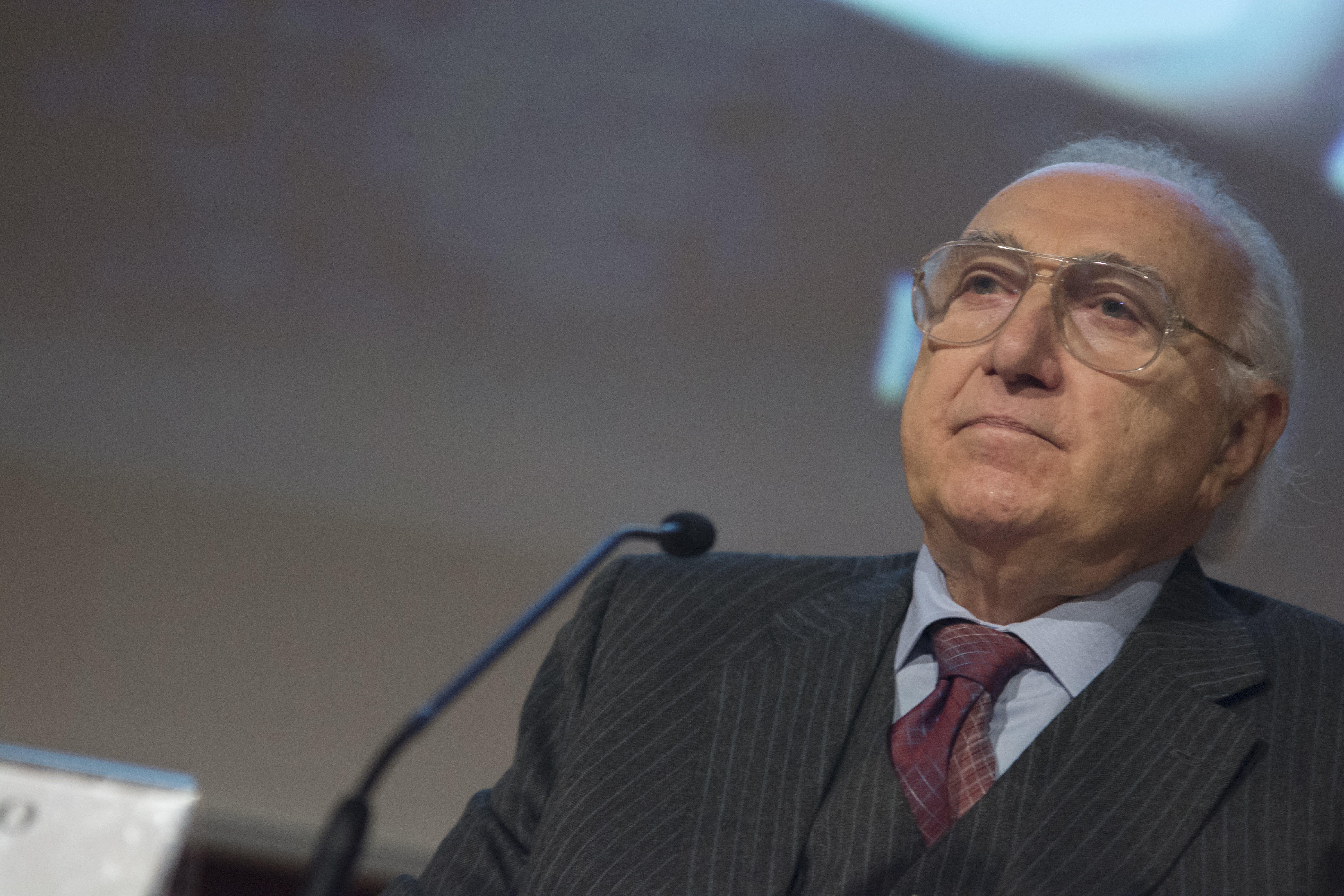 Pippo Baudo at XXIX Salone Internazionale del Libro 2016.